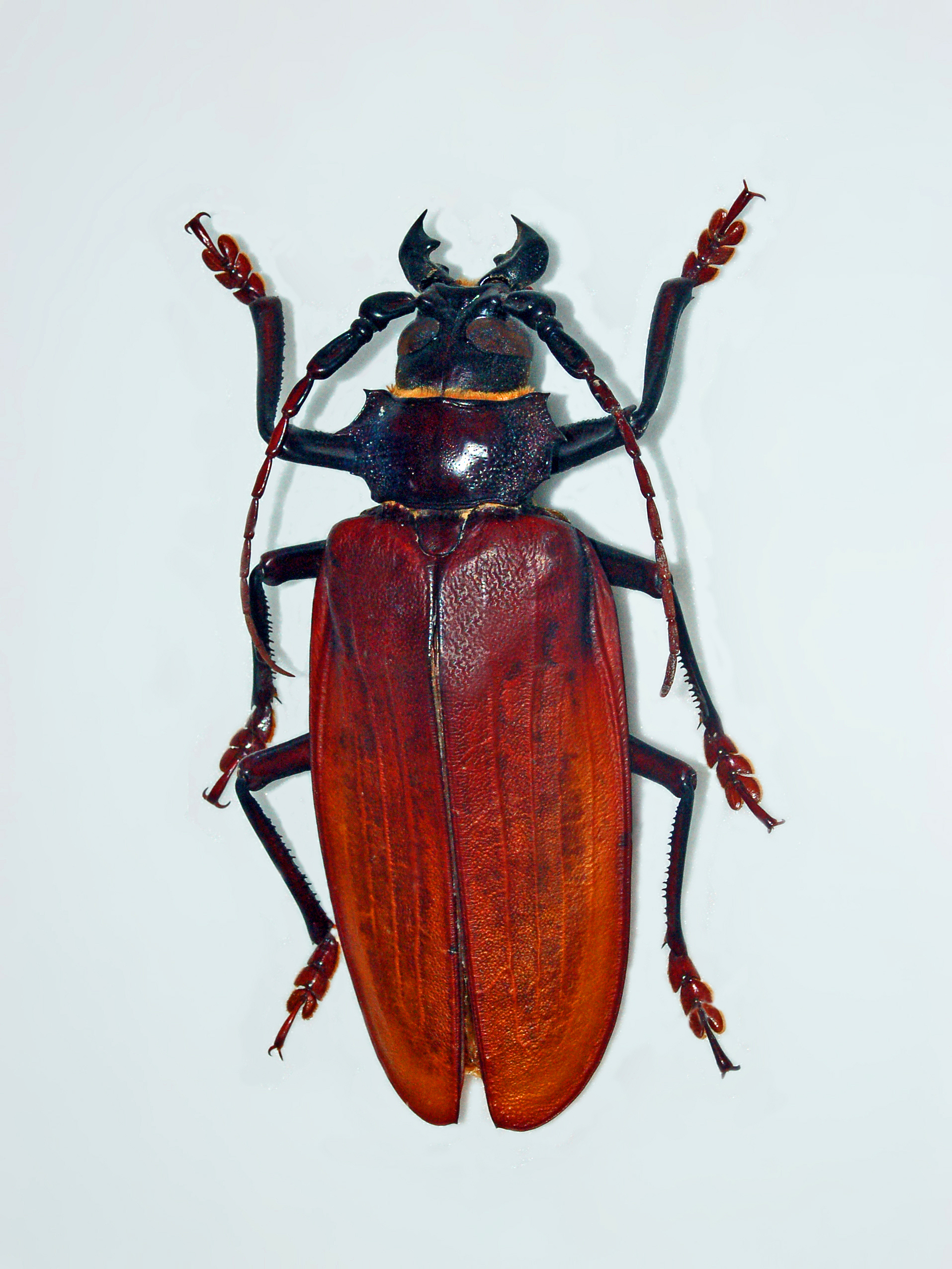 Titanus giganteus. Mounted specimen at the Montréal Insectarium